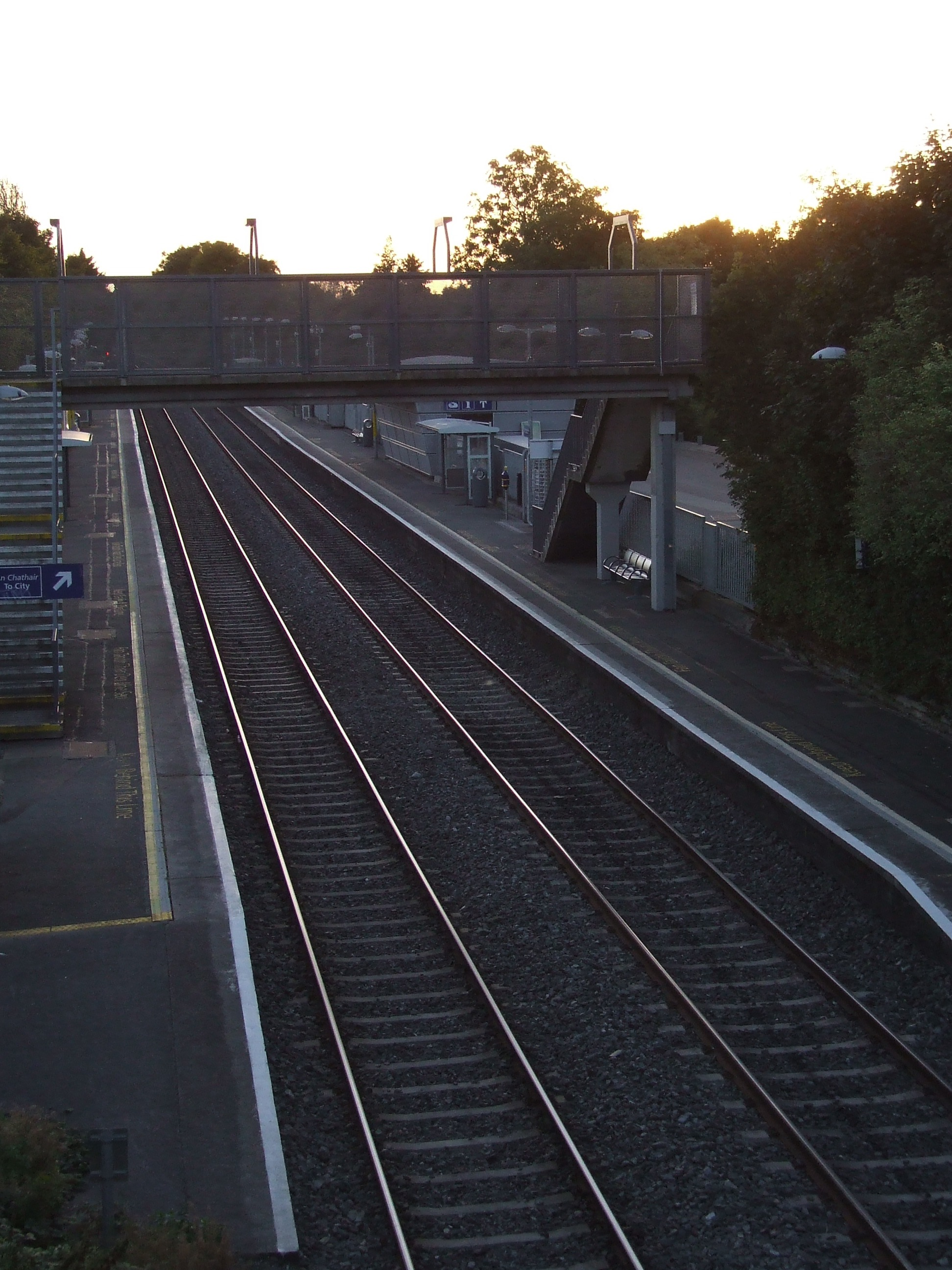 Castleknock railway station, sunset, September 2012. Taken from the road bridge.